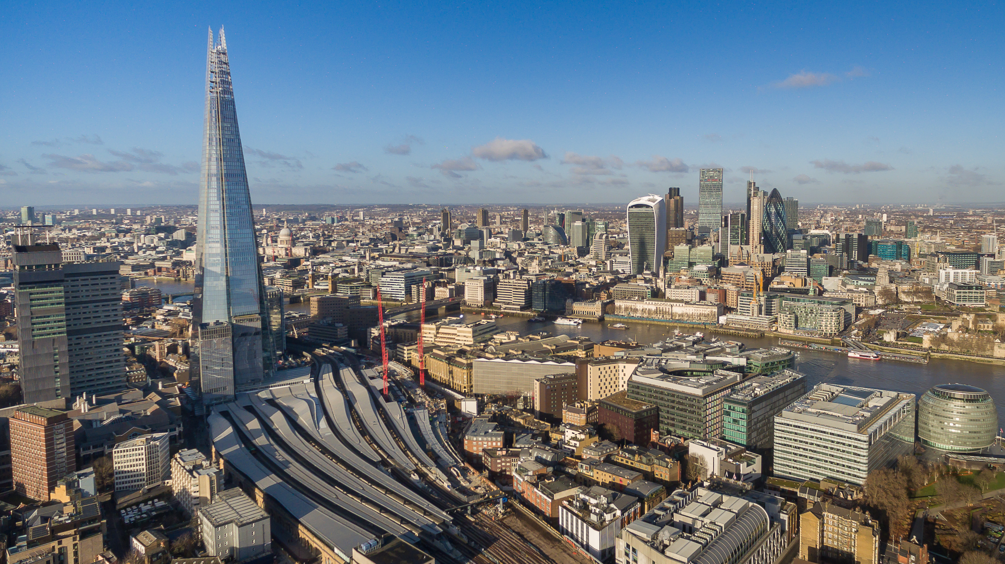 To the left, The Shard, London, SE1, the tallest building in Western Europe, and the fourth-tallest building in Europe. Across the river, the City of London.